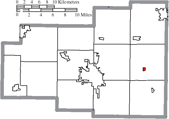 Map of the municipal and township boundaries of Allen County, Ohio, United States, as of the 2000 census, with the location of the village of Lafayette highlighted. Township borders are shown only in unincorporated areas in order to differentiate incorporated and unincorporated areas more clearly.